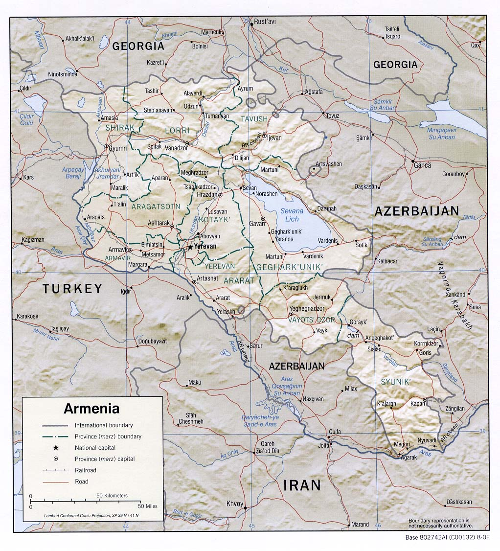 Armenia (Shaded Relief) 2002